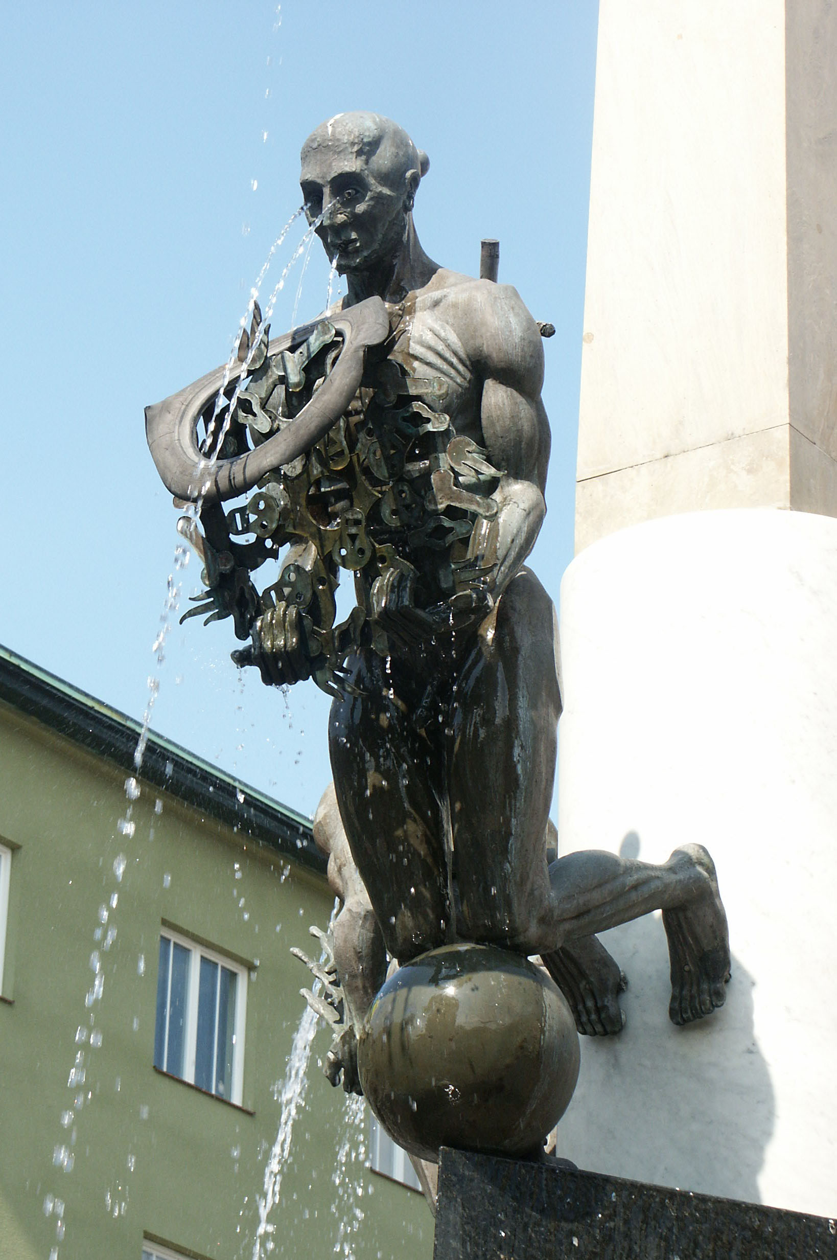 The statue at the square Triangeln in Malmö Sweden